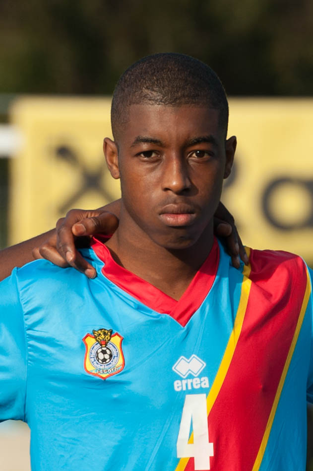 U21 Austria - DR Congo, 2014-10-12: Presnel Kimpembe